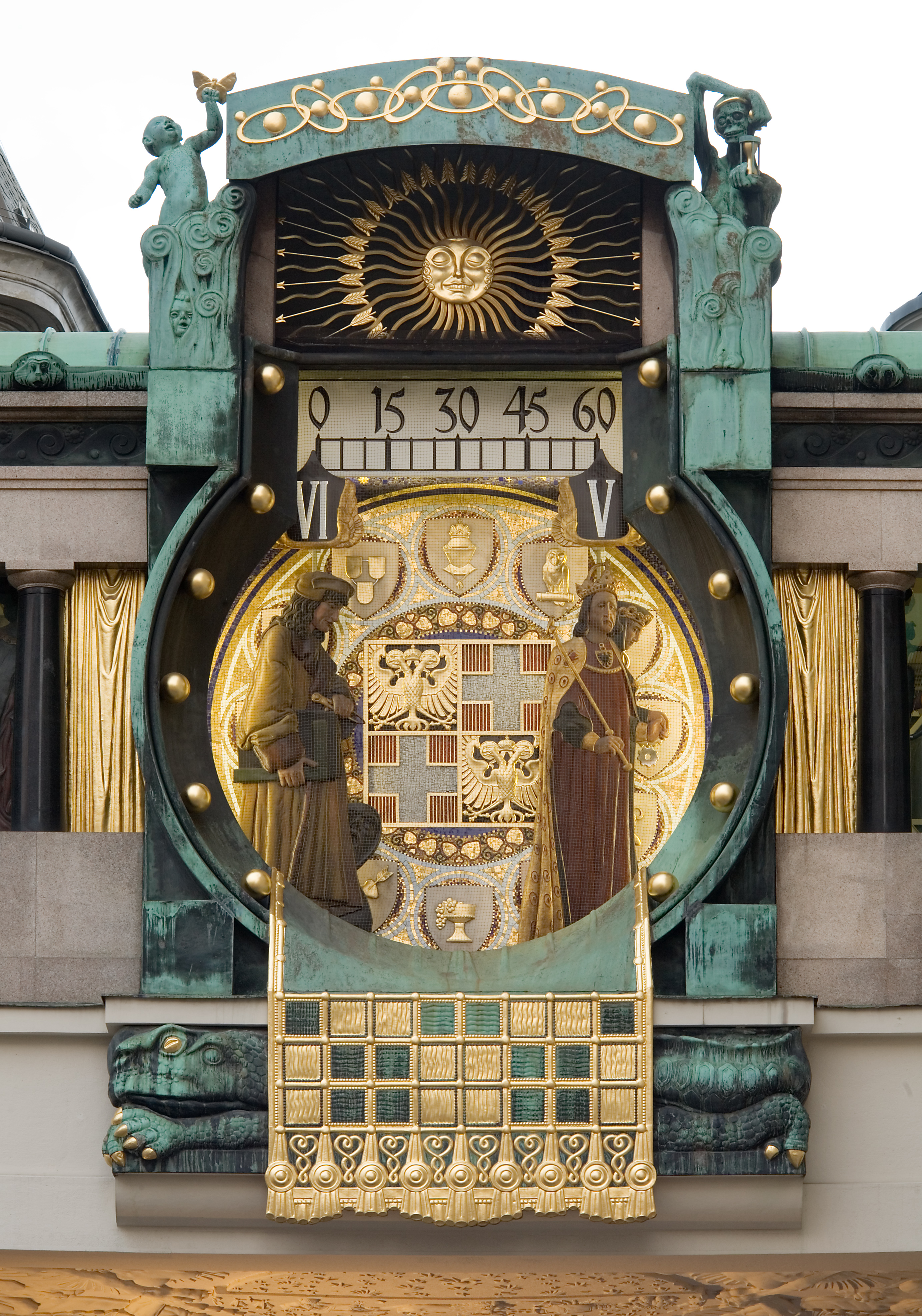 Anker Clock at Hoher Markt Vienna insurance Austria by Franz von Matsch